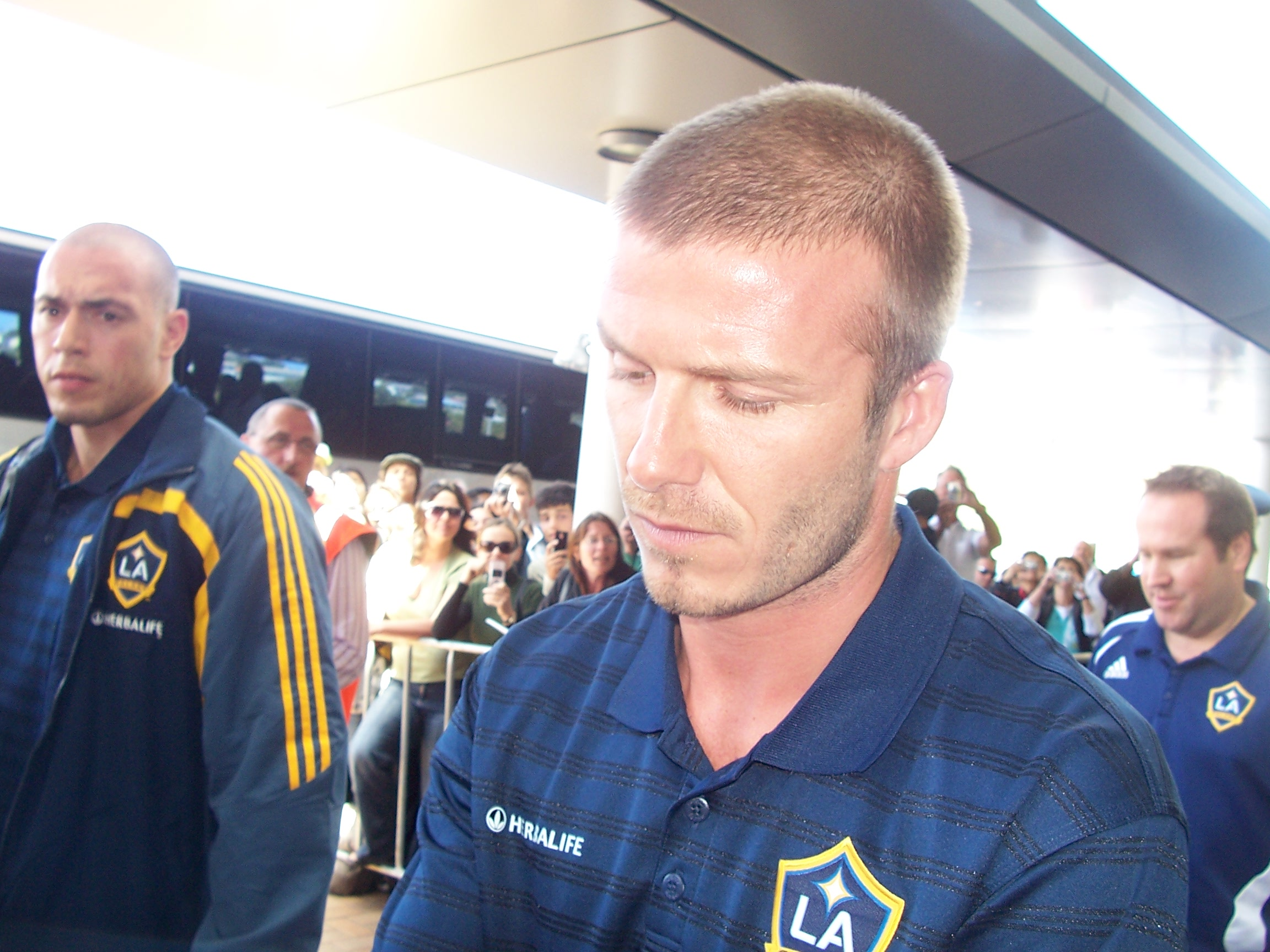 David Beckham signing autographs outside Wellington International Airport, following his arrival from Sydney. Beckham plays the Wellington Phoenix whilst in Wellington (New Zealand), having played Sydney FC whilst in Sydney.